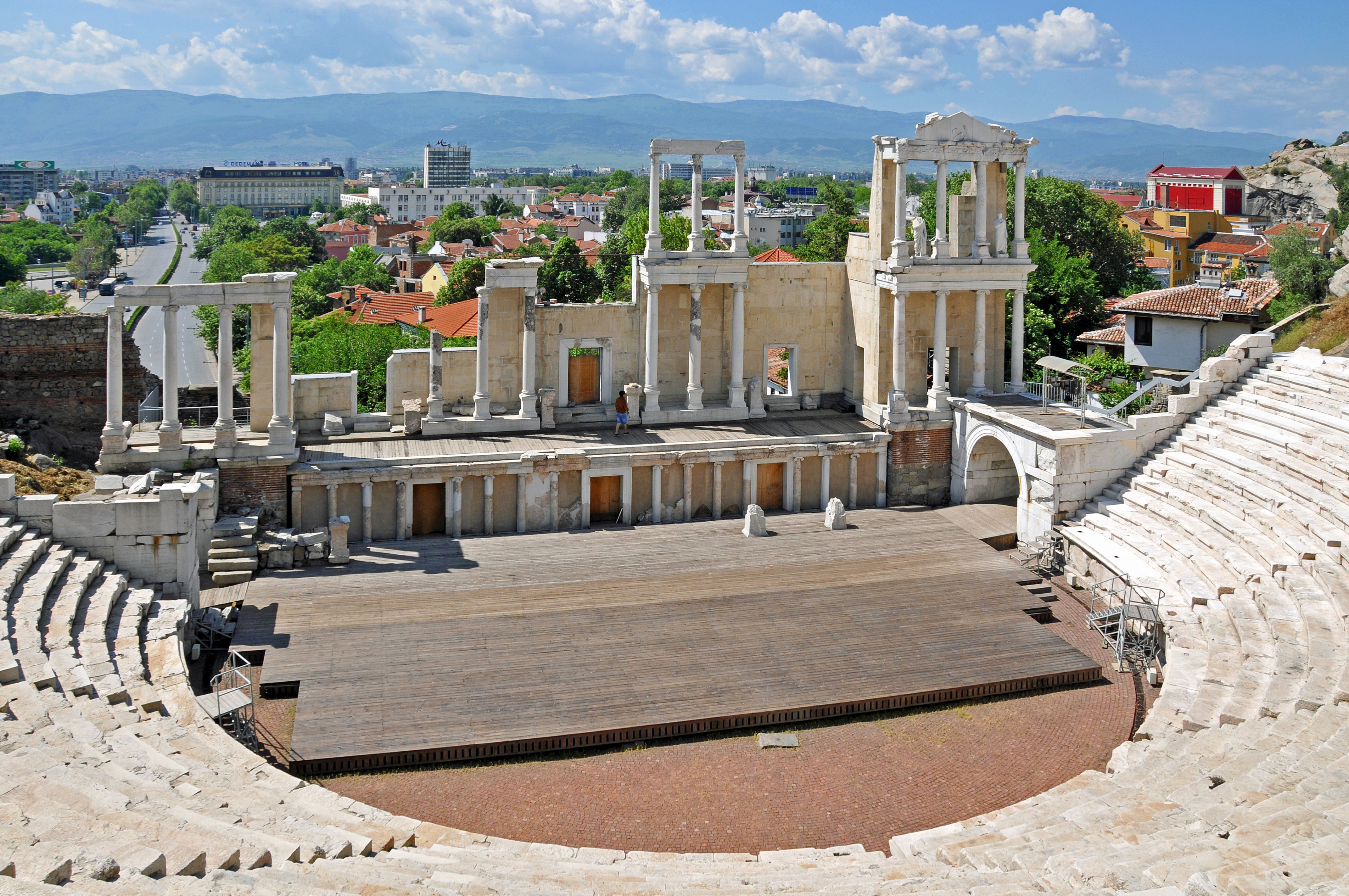 The Roman theatre of Philippopolis is a semi-circle with an outer diameter of 82m (269ft). The stage building (the skene), is situated south of the orchestra and has 3 floors. The stage area (proskenion) is 3.16m (10.4ft) high and its facade, which is facing the orchestra, is decorated with an Ionic marble colonnade with triangular pediments. According to a builders’ inscription, discovered on the frieze-architrave of the eastern proskenion, the construction of the theatre dates back to the time of Emperor Trajan. Built with 7,000 seats, each section had the names of the city quarters engraved on the benches so the citizens at the time knew where they were to sit. The theatre was damaged in the 5th century AD by Attila the Hun. The theatre was found again in the 1970s due to a landslide, this started a major archeological excavation. My photos are FREE for anyone to use, just give me credit and it would be nice if you let me know, thanks - NONE OF MY PICTURES ARE HDR.